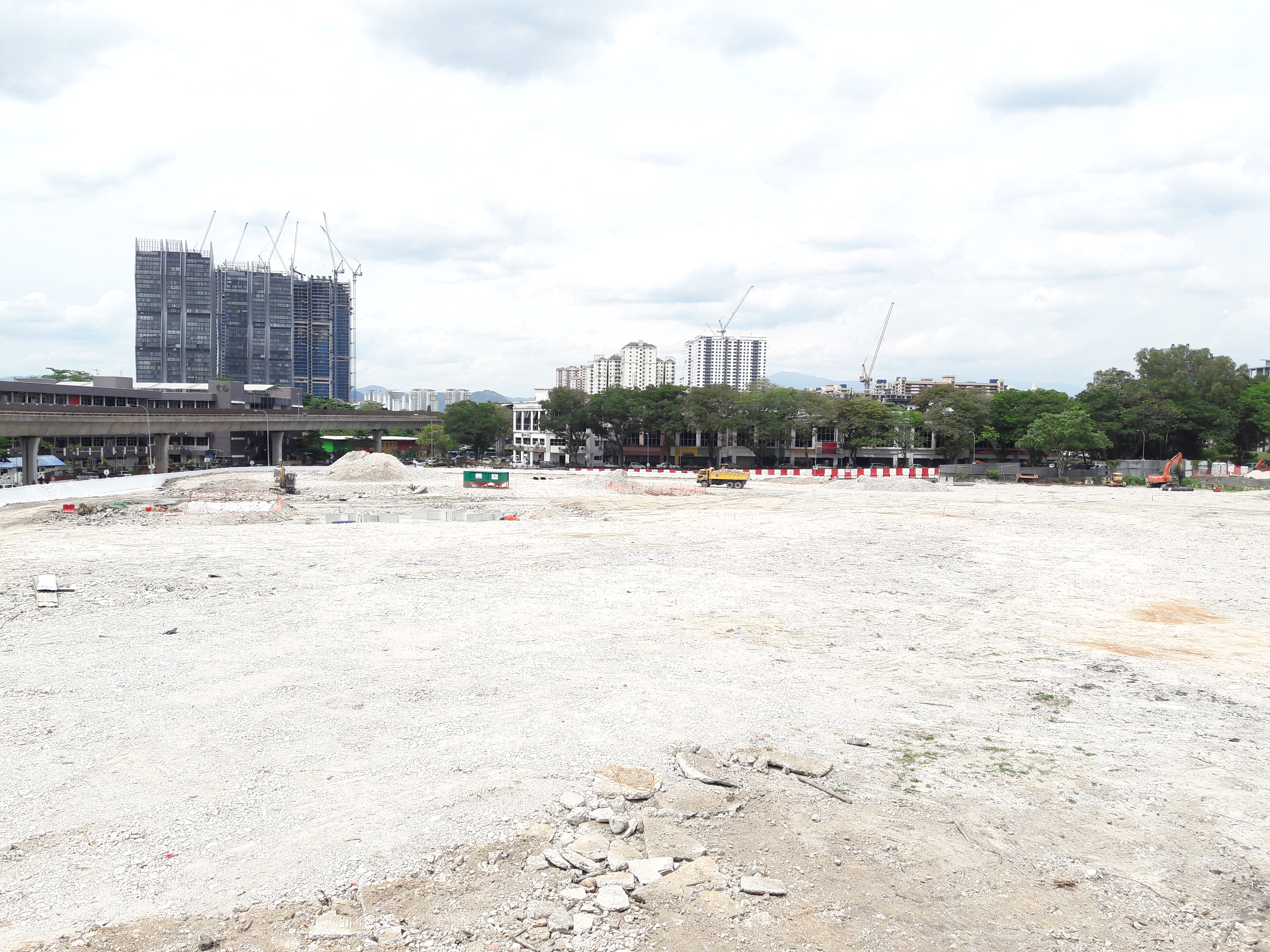 Site of the former Pekeliling Flats (1965-2015) seen from the Titiwangsa Monorail station.